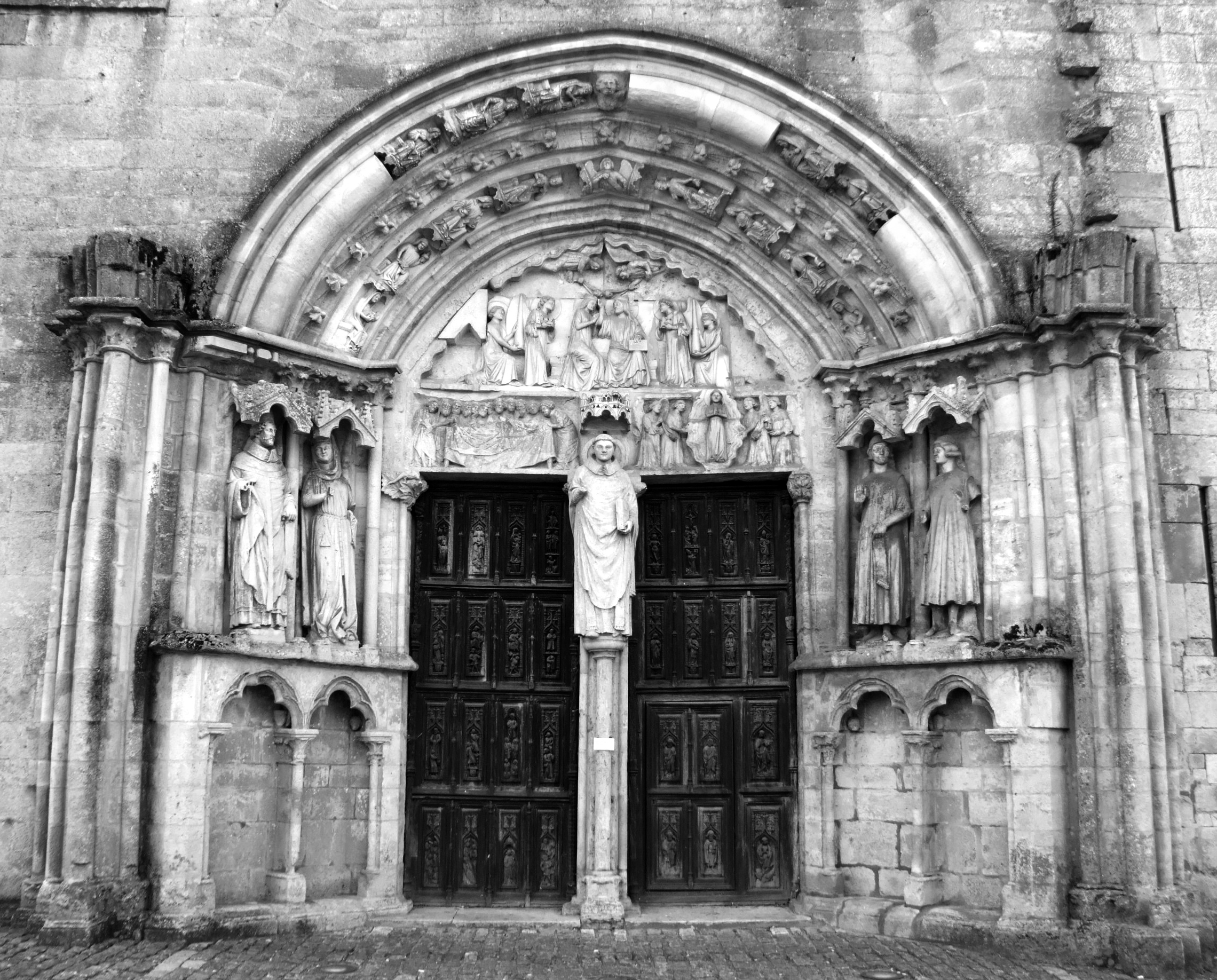 Saint-Thibault Church, Saint-Thibault , Burgundy, FRANCE